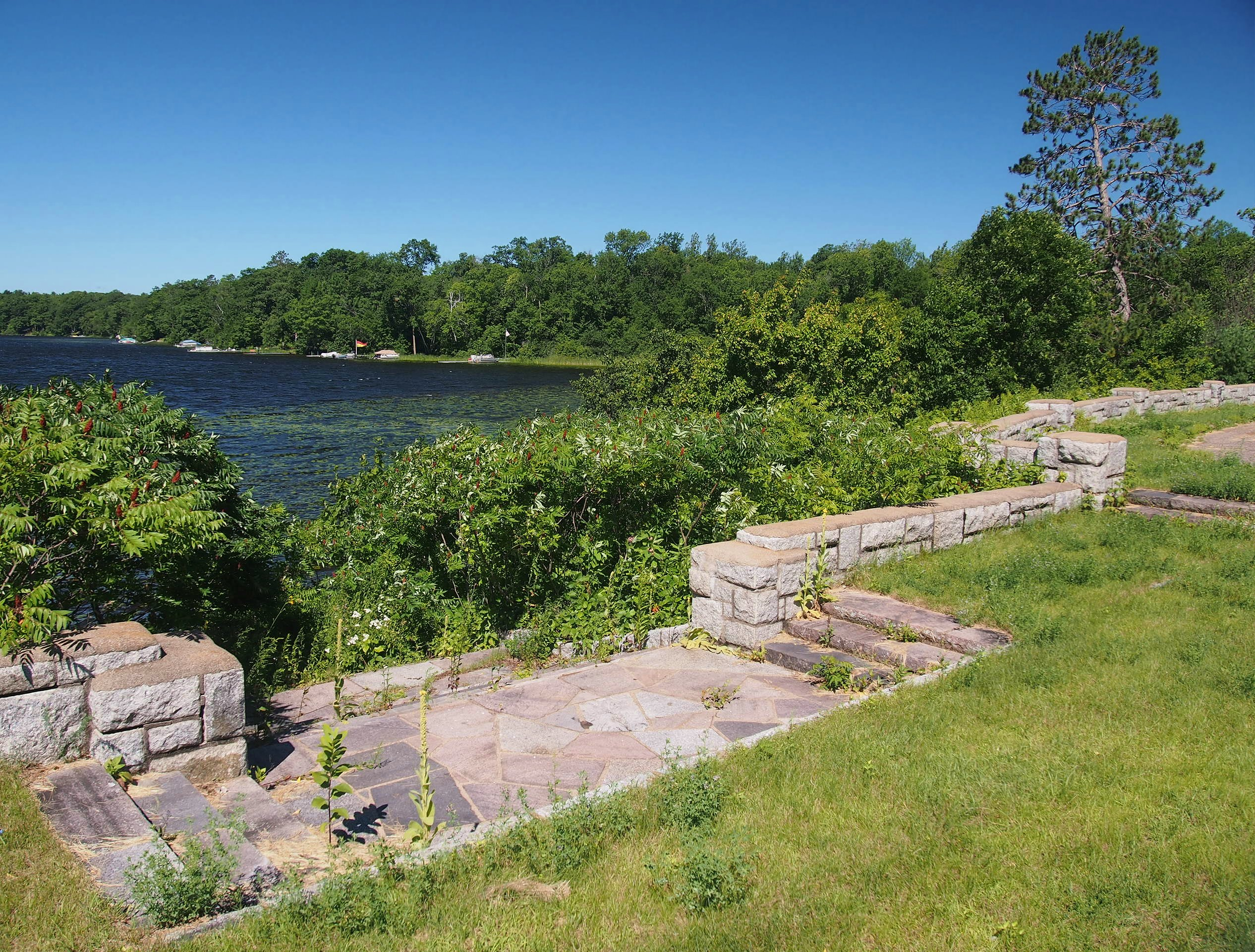 Kenney Lake Overlook, Minnesota State Highway 18, Garrison Township, Minnesota, USA. Viewed from the southeast.